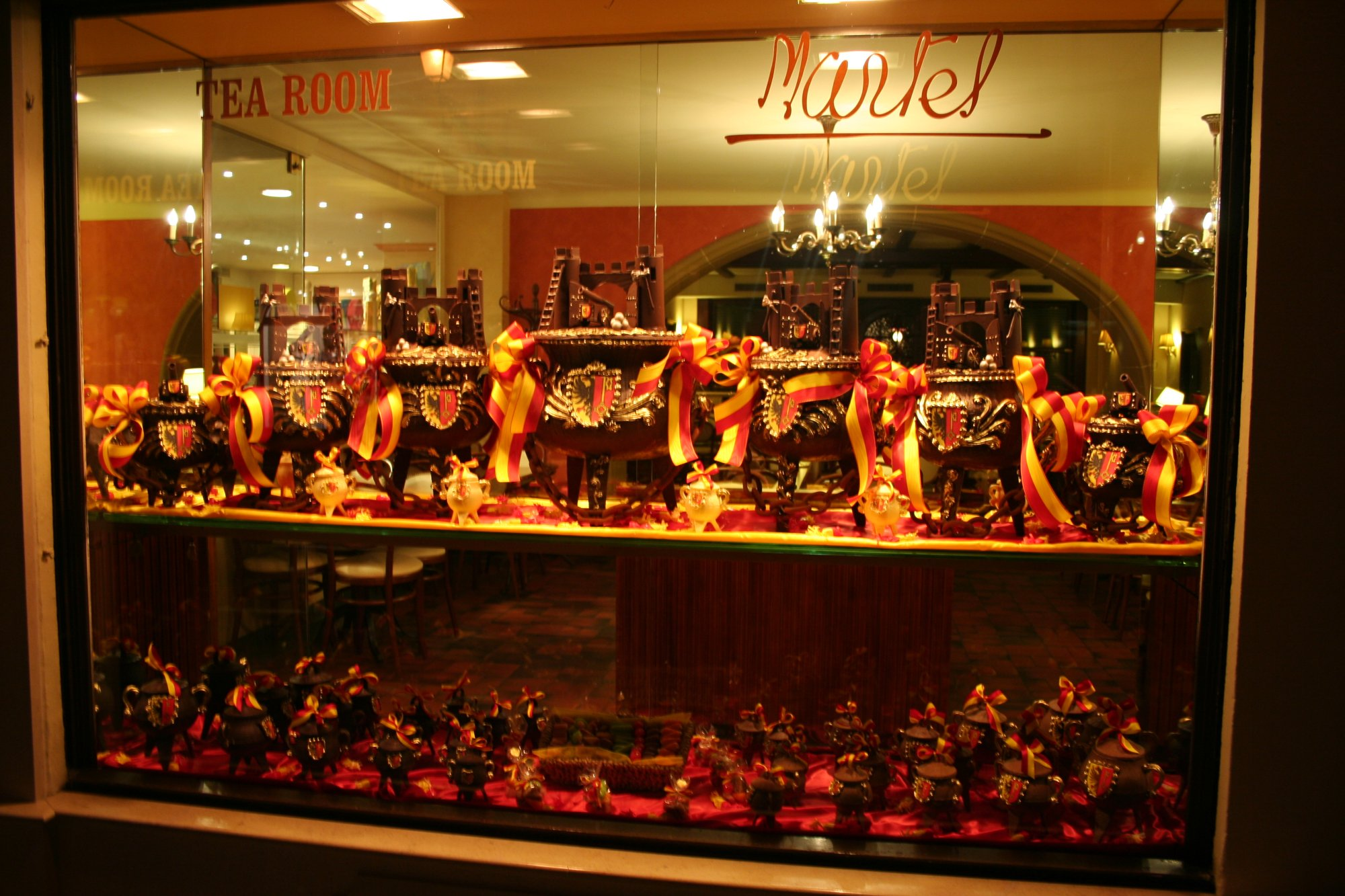 Window of the Martel chocolate shop in Carouge (Switzerland) with a choice of "Marmites de l'Escalade". Photo taken on 26 November 2006. See more detailed image: Image:Marmite-Escalade.jpg